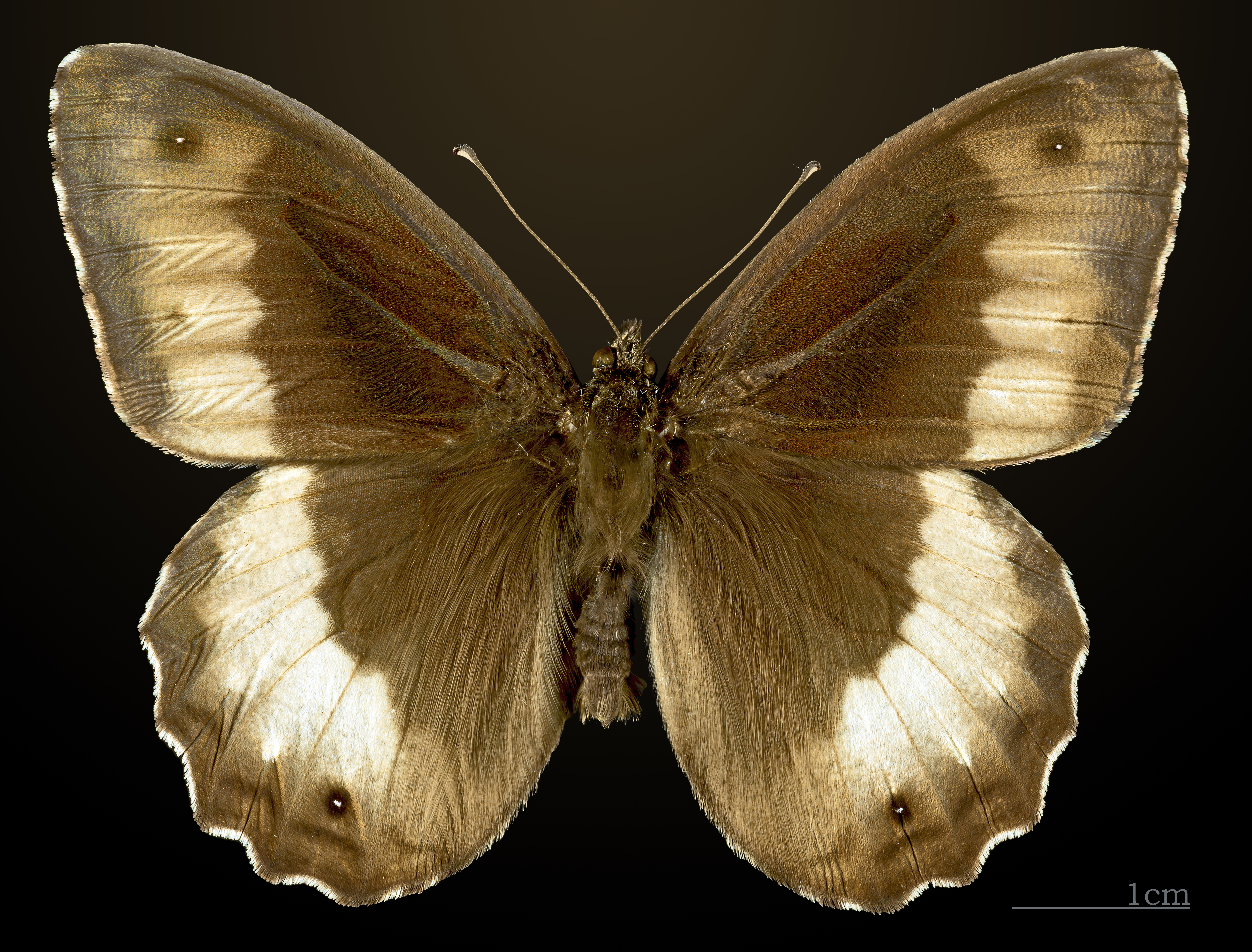 Woodland Grayling - Dorsal side Locality: Cahors, Lot, France